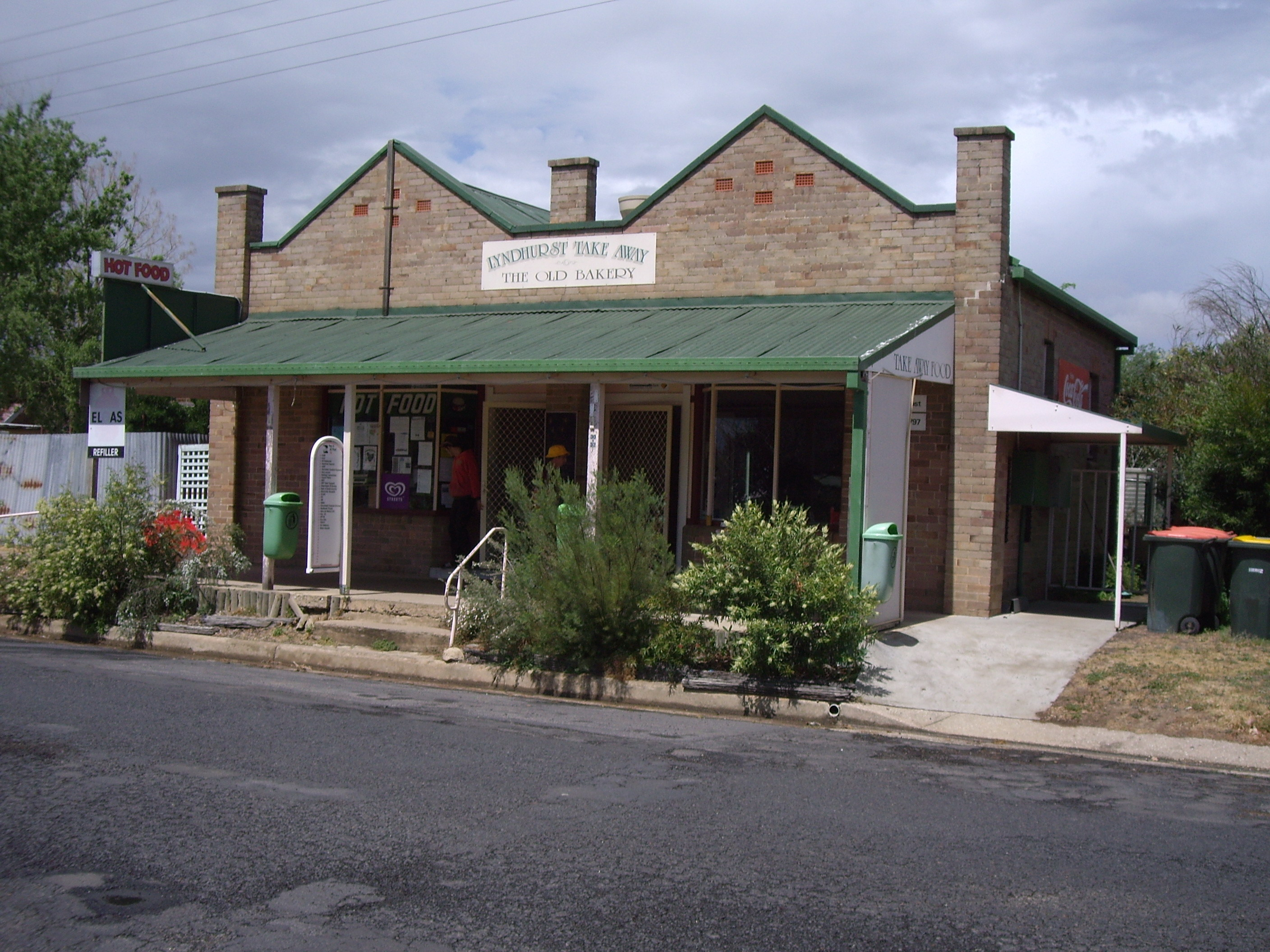 Lyndhurst General Store, Bakery and Post Office